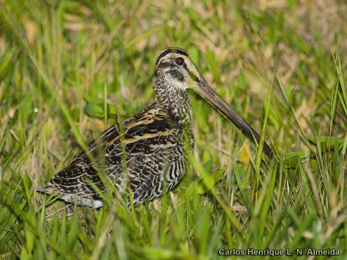 Gallinago undulata at Pousada Bacury (Anhembi, Sao Paulo, Brazil)